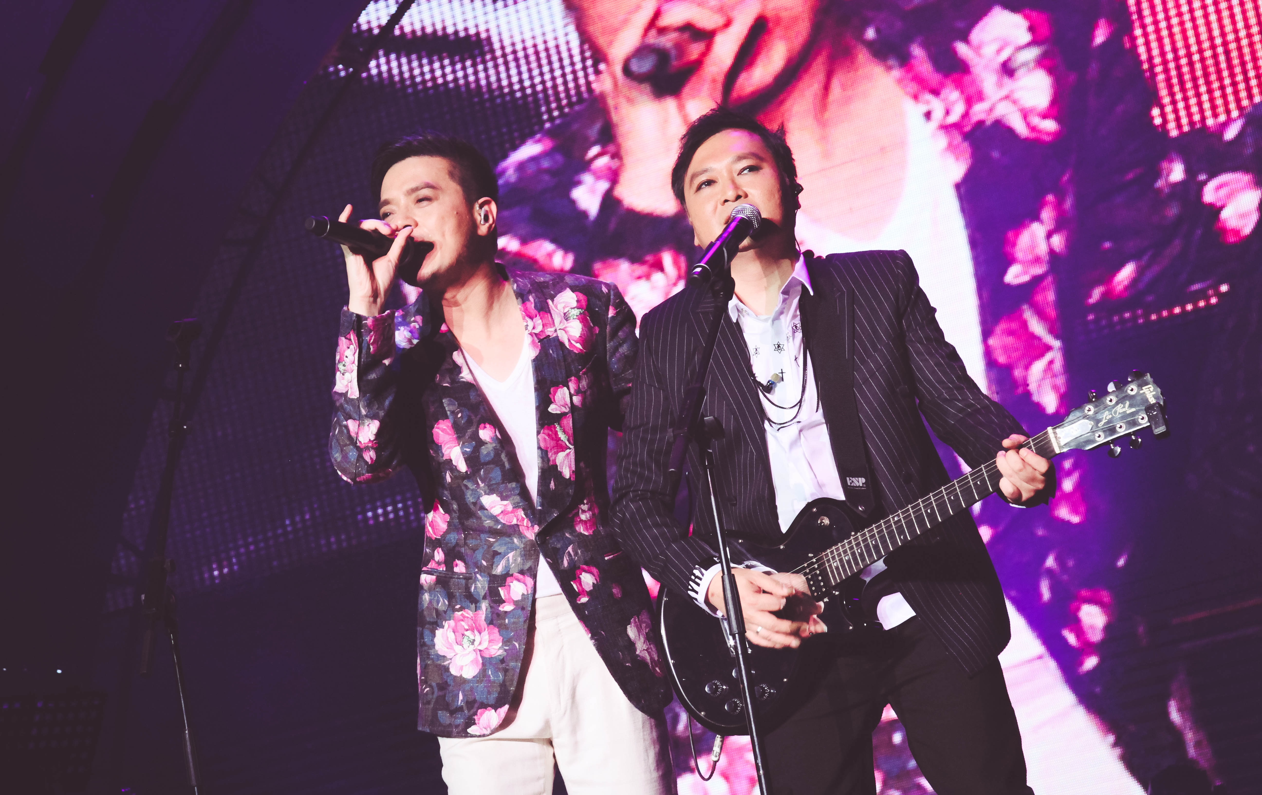 Tat Ming Pair performing in PolyGram Forever Live Concert, Singapore, 2014